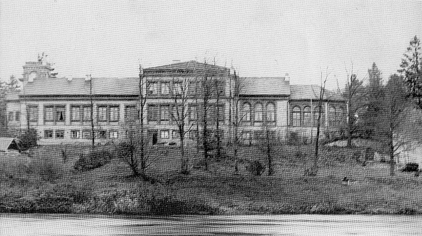 Taali parish from river